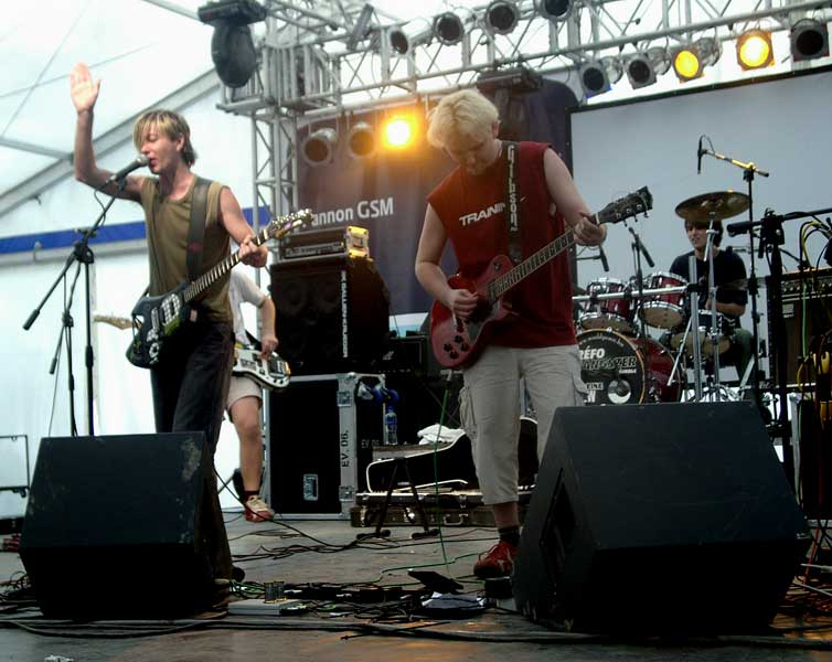 30Y band in Sopron on 7 July 2005.